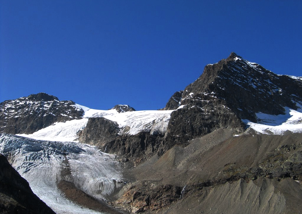 Piz Buin, Graubünden